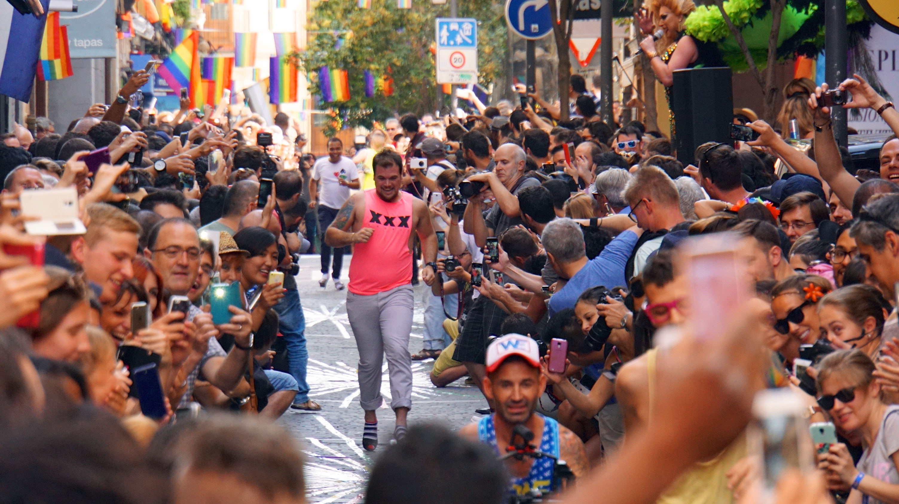 "CARRERA DE TACONES" High Heel Race, Madrid Pride, Calle Pelayo 2015